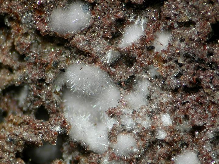 Mullite Locality: Emmelberg Mt., Üdersdorf, Daun, Eifel Mts, Rhineland-Palatinate, Germany Field of view 4 mm. Specimen and photo Leon Hupperichs.